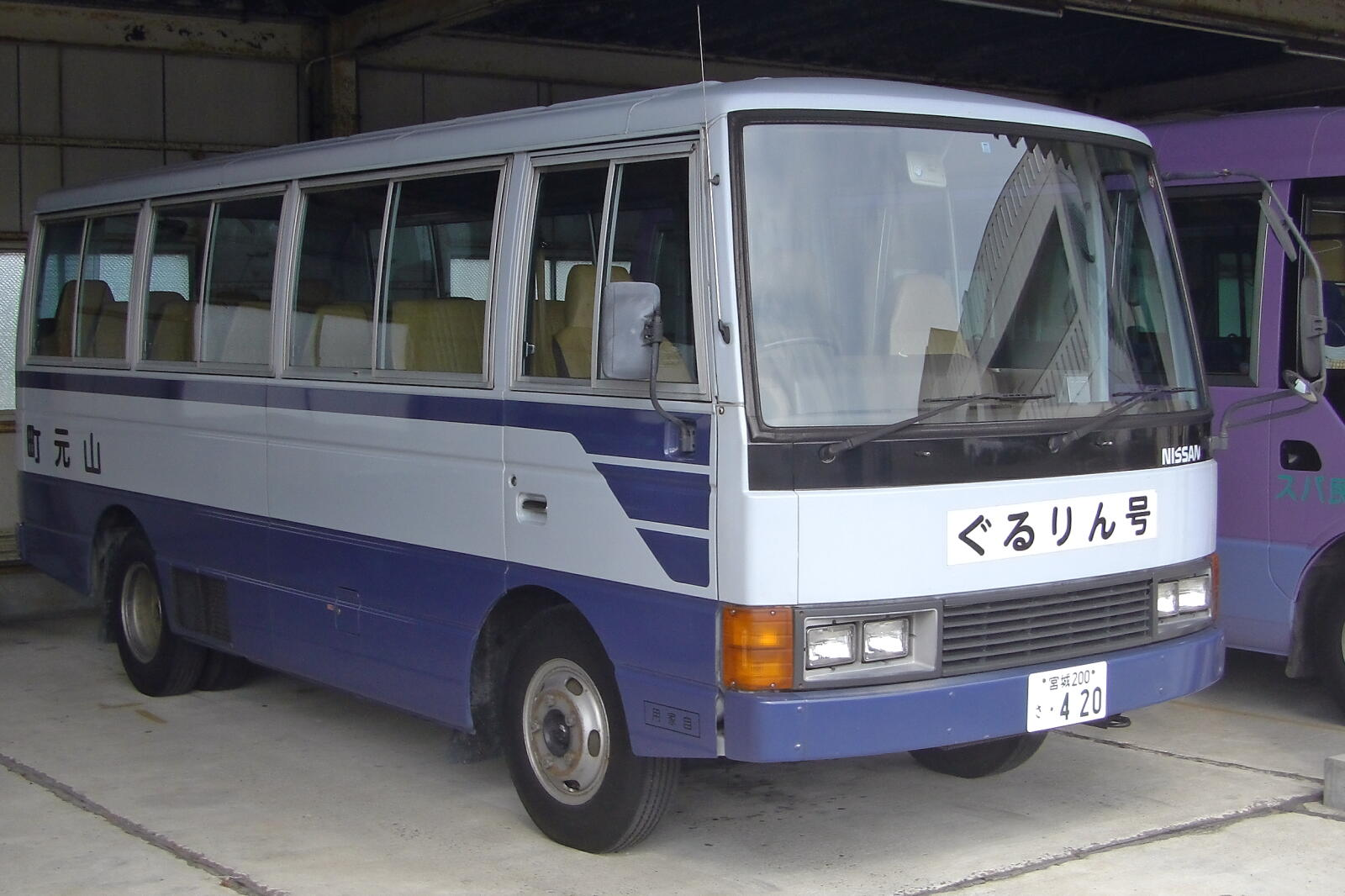 Gururingo (Yamamoto town,Miyagi) Subcar